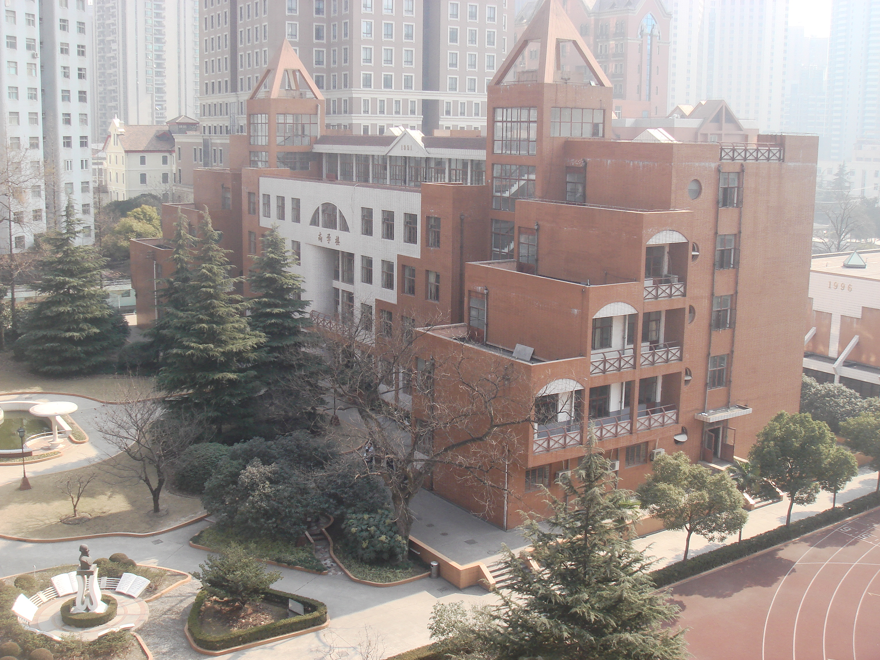 build in 1991